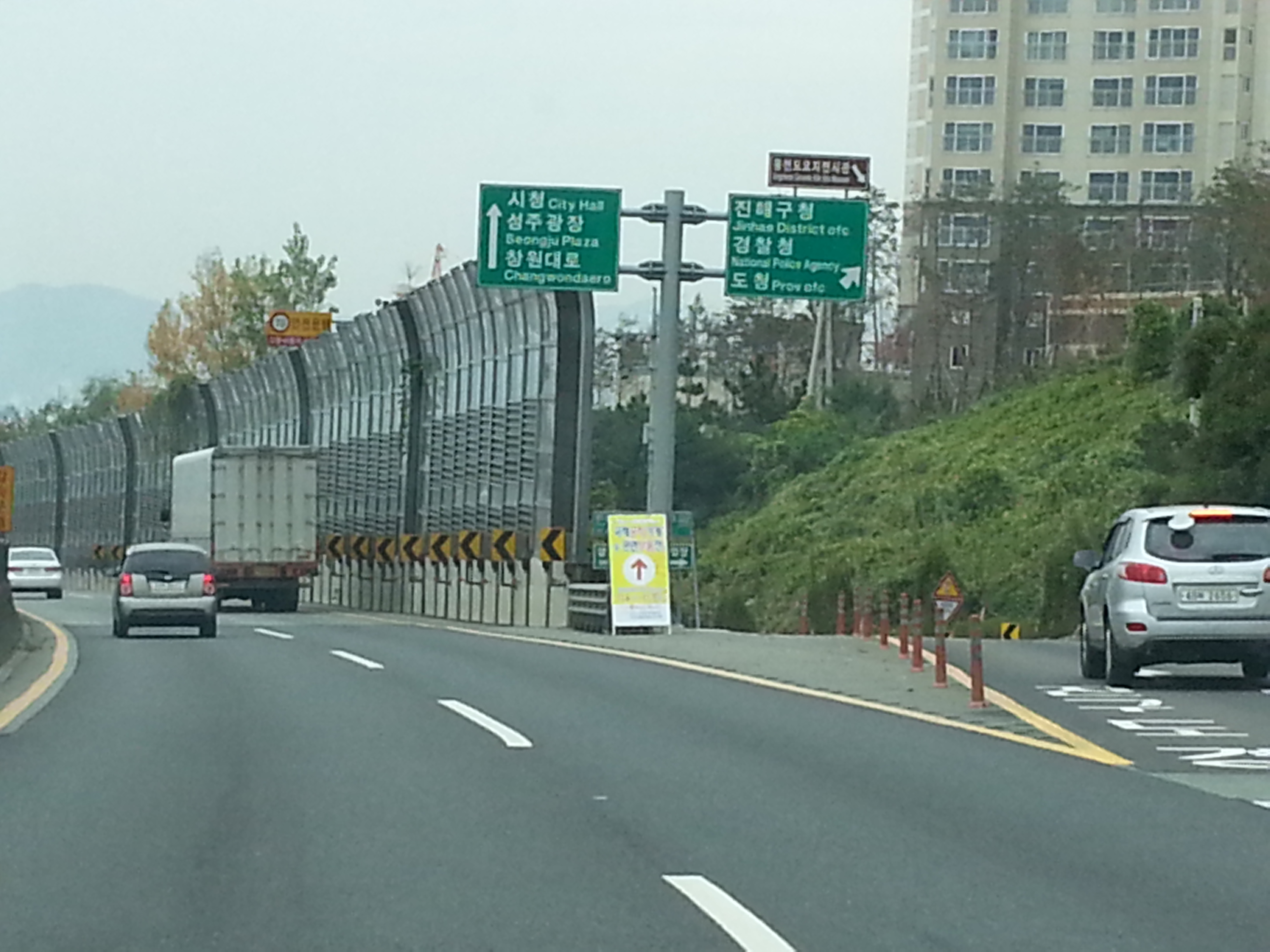 The end of Changwondae-ro in Changwon, South Korea.